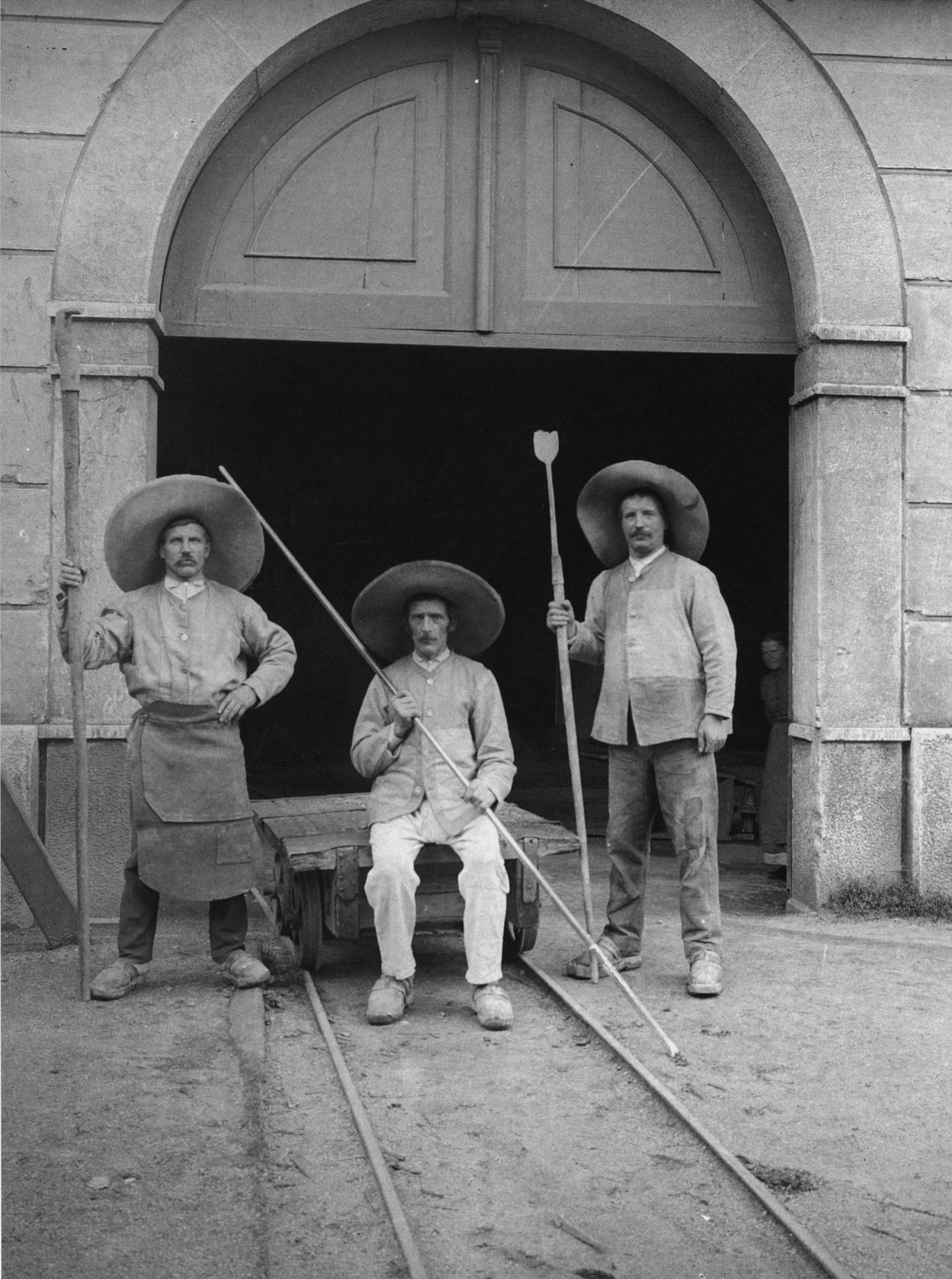 Petschar, Friedlmeier, Steiermark in alten Fotografien, Ueberreuther Verlag Wien. Scanprojekt Community Projektbudget 2012 This scan or this PDF-file was created within the GLAM-project Bookscanning, supported by Wikimedia Germany and Wikimedia Austria as a part of the community-project to capture books, documents and pictures which are not eligible to copyright or for which the copyright has expired. This document describes or depicts an object which is located in Austria today. Texts are written German language. Send requests for uncompressed scans to Hubertl. This work is in the public domain in its country of origin and other countries and areas where the copyright term is the author's life plus 100 years or less. You must also include a United States public domain tag to indicate why this work is in the public domain in the United States. This file has been identified as being free of known restrictions under copyright law, including all related and neighboring rights.